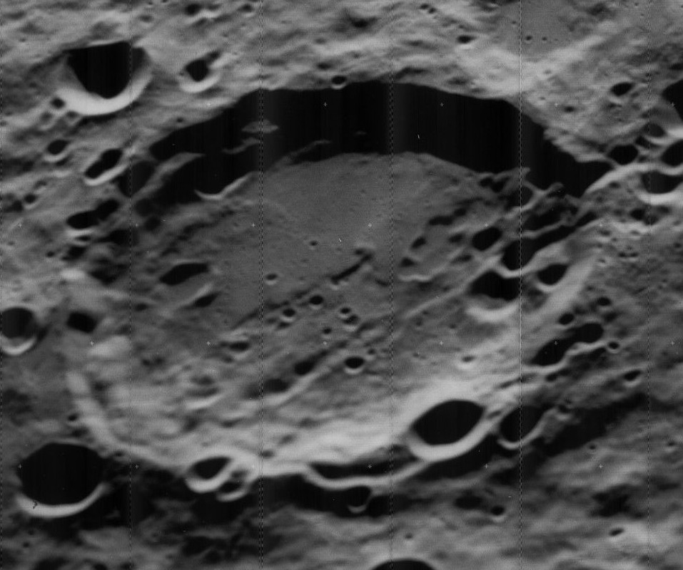 Oblique view of Kekulé crater, on the far side of the moon, facing west.